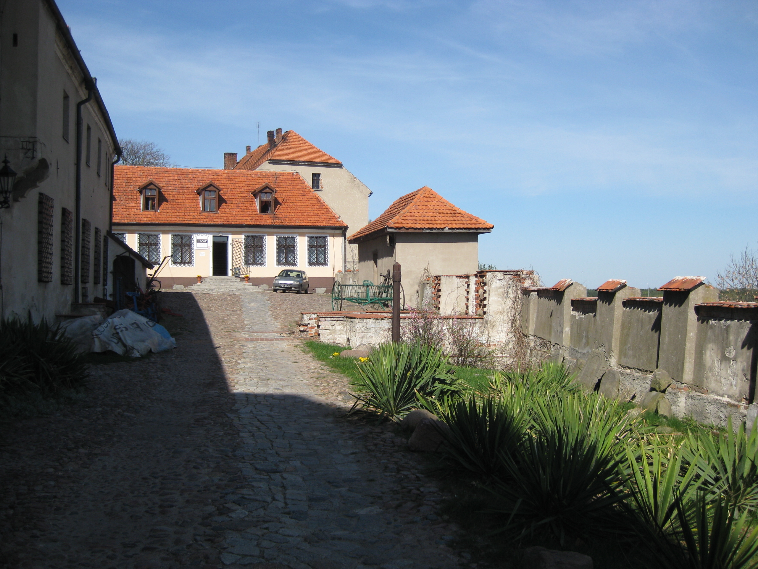 Castle in Pyzdry